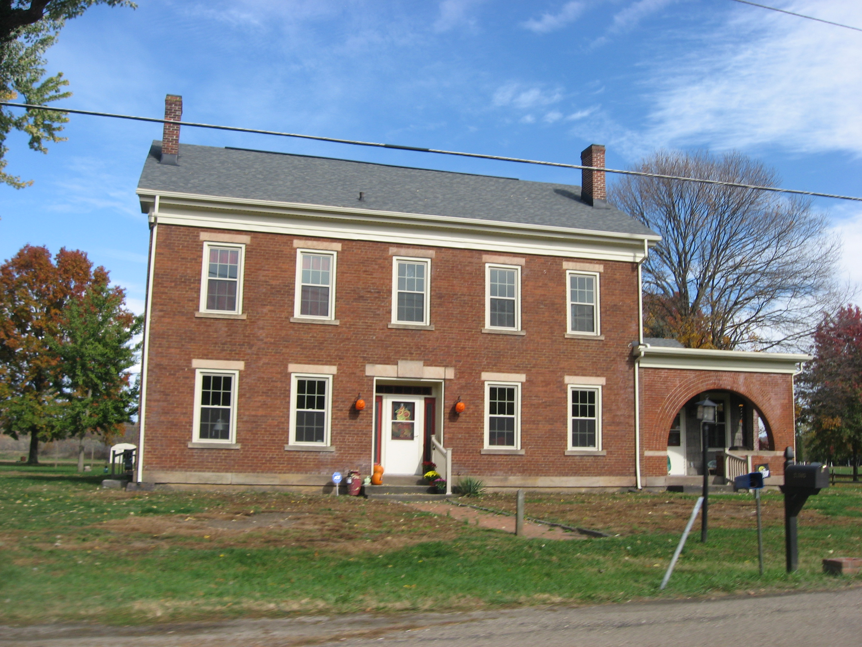 Front of the Andrew Ferguson House, located along State Route 751 east of West Lafayette in Lafayette Township, Coshocton County, Ohio, United States. Built in 1840, it is listed on the National Register of Historic Places.